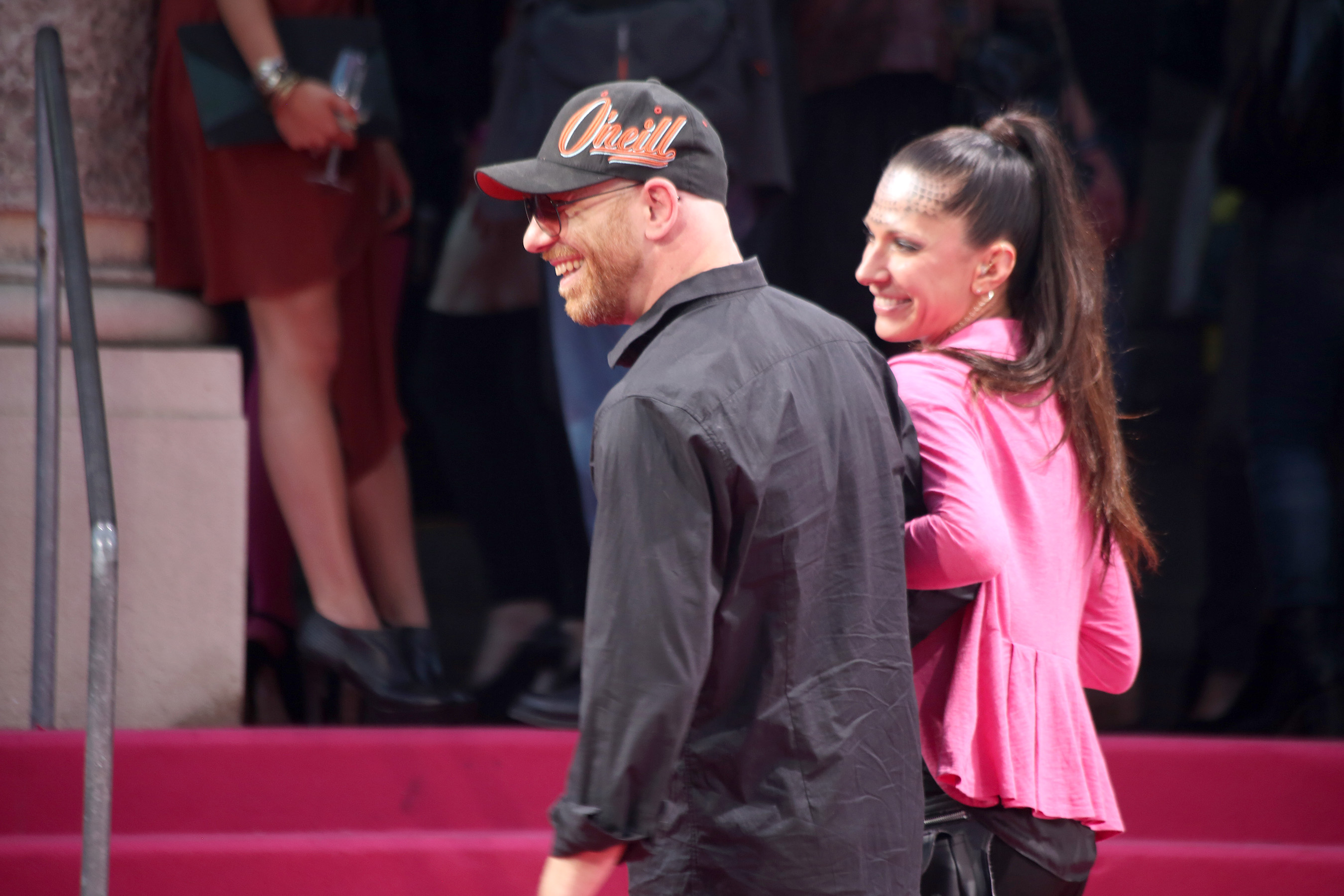 Roman Gregory of Alkbottle at the Amadeus Austrian Music Award at Volkstheater in Vienna